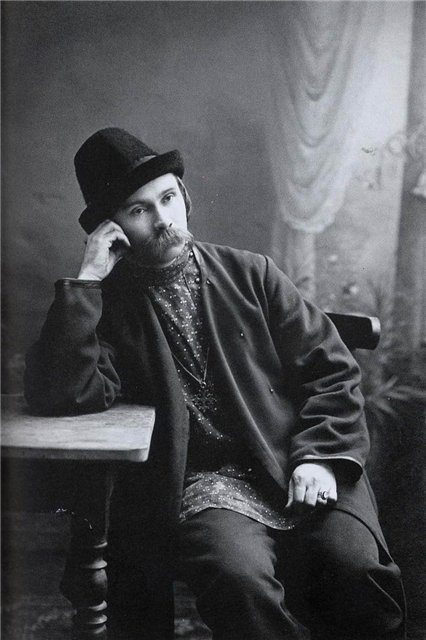 Nikolay Klyuev 1915-16